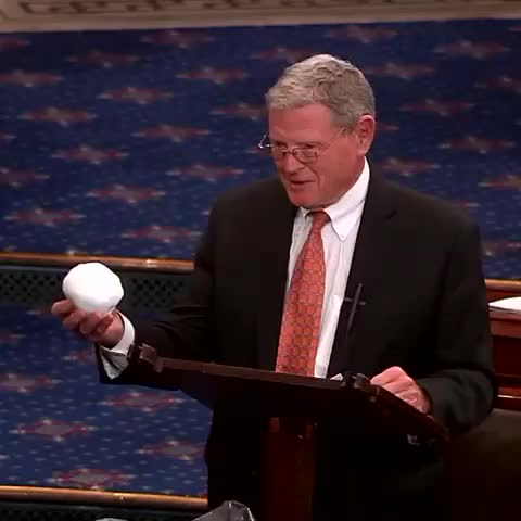 Jim Inhofe holding a snowball.